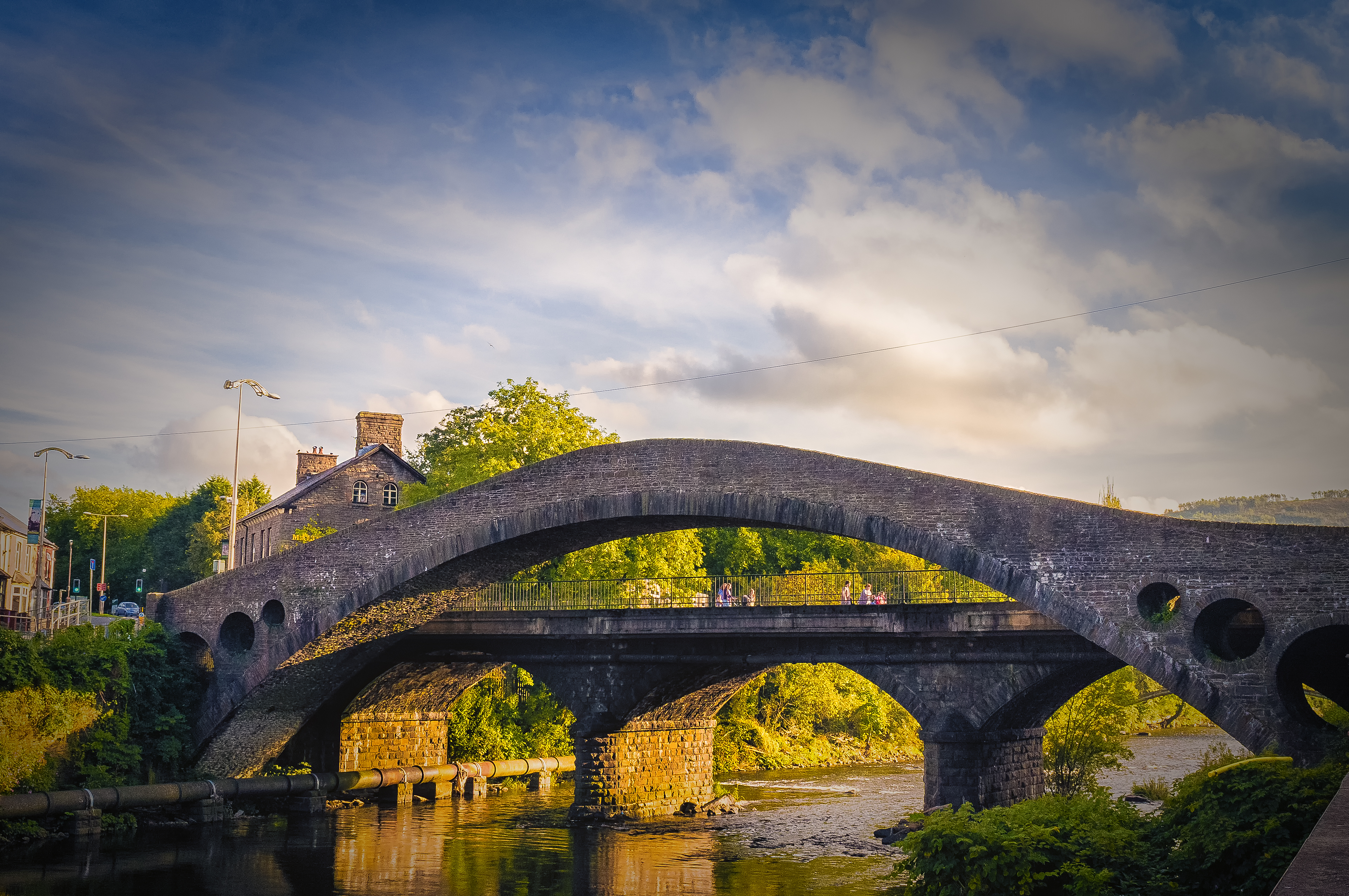 The Old Bridge (formerly New Bridge) in Pontypridd, south Wales, with the Victoria Bridge behind it.